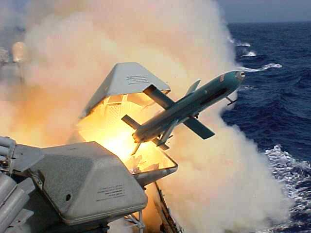 Gabriel Missile being shot from Sa'ar 4 Class Missile boat.